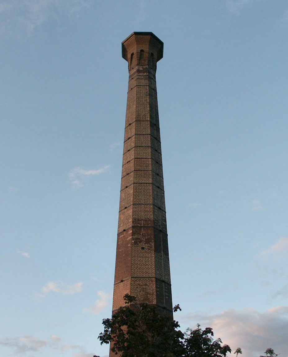 Foss Islands chimney, Layerthorpe, York, UK